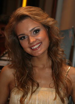 Miss Lithuania 2007 Jurgita Jurkute. Photo taken in Miss World 2007, Sanya 1/12/07.